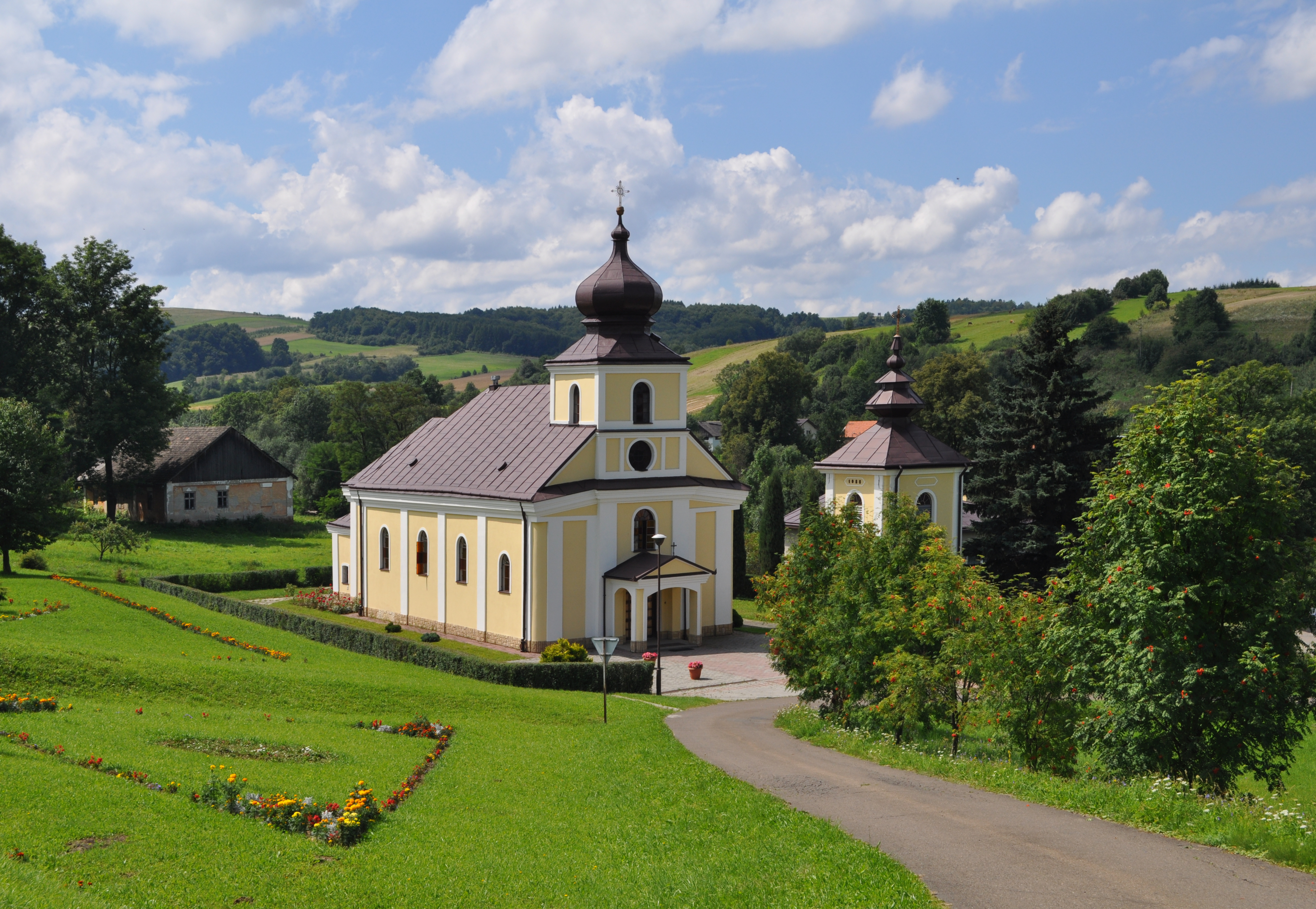 Saint Mary of Help church in Pielnia